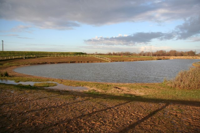 Cleethorpes Country Park Part of the 7 acre lake